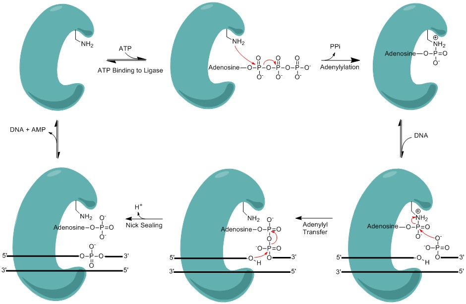 This file contains the minimalistic mechanism of the ATP dependent DNA ligases